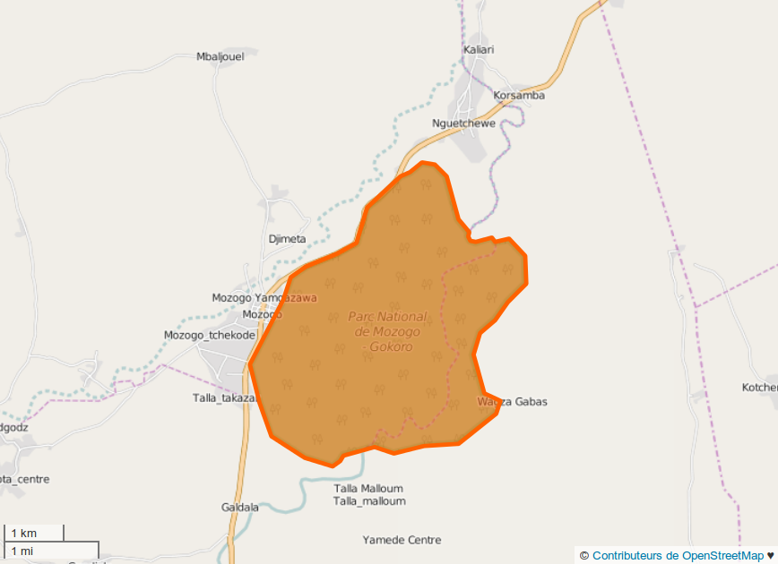 Mozogo Gokoro National Park, Cameroon (OSM). This map may be incomplete, and may contain errors. Don't rely solely on it for navigation.